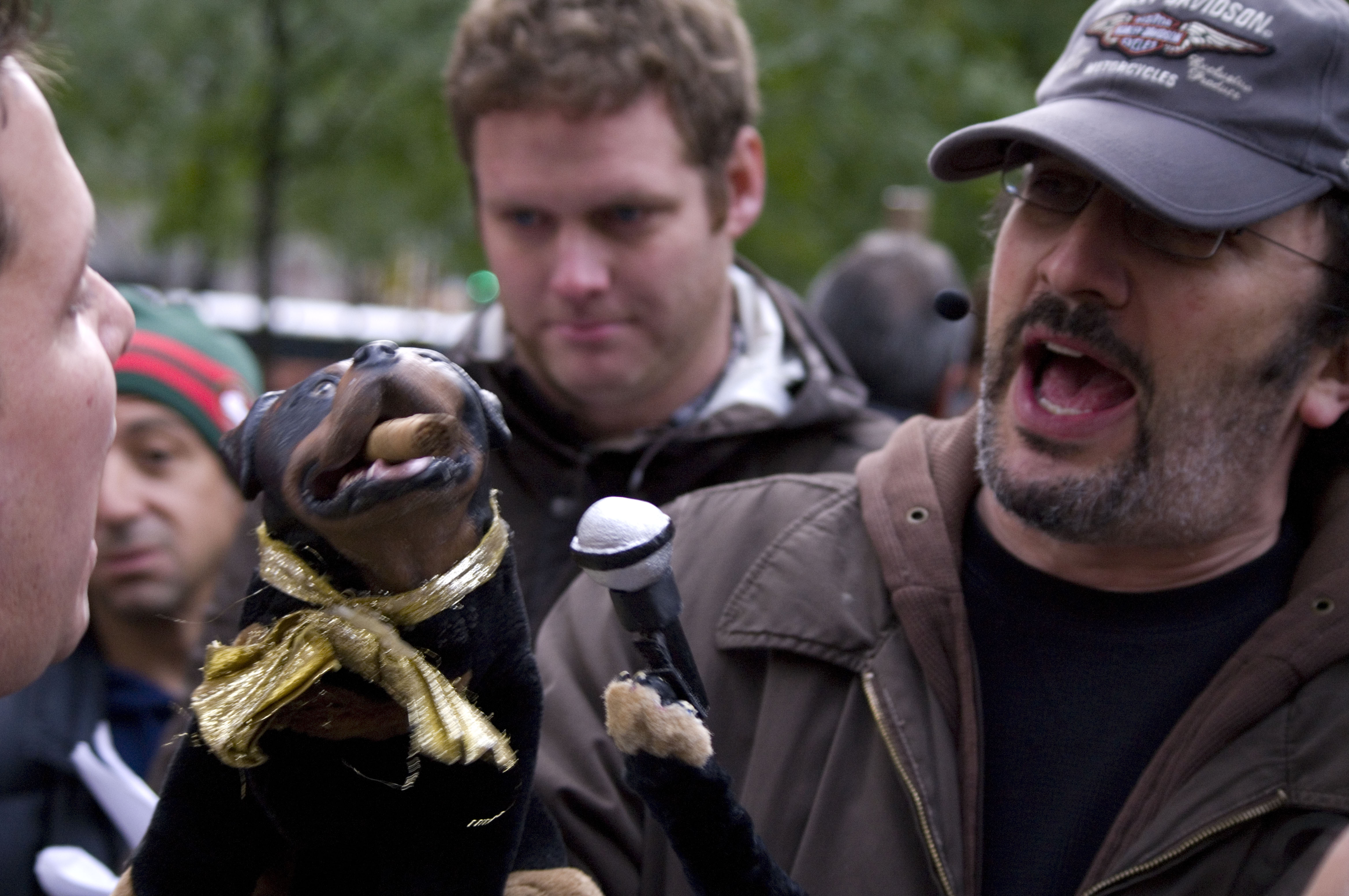 Robert Smigel and Triumph the Insult Comic Dog - Occupy Wall Street Zuccotti Park (10/28/11)